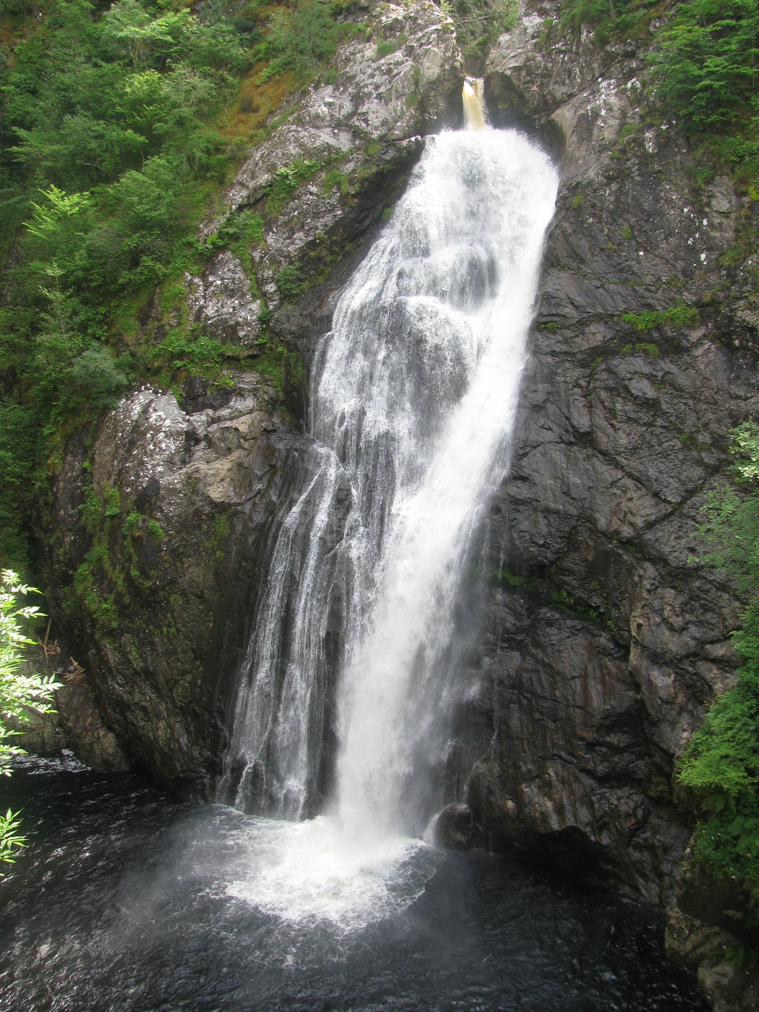 The Fall of Foyers is a waterfall on the River Foyers, which feeds Loch Ness, in Highland, Scotland. The waterfall has "a fine cascade", having a fall of 165 feet. It is located on the lower portion of the River Foyers at grid reference NH497203. The river enters Loch Ness on the East side, North-East of Fort Augustus. This waterfall influenced Robert Addams to write a paper in 1834 about the motion aftereffect